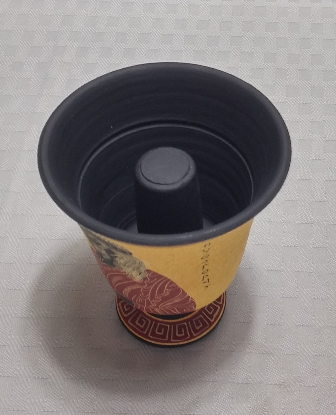 Pythagorean cup from Samos